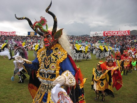 Diablo Puneño. Diablada puneña during the Fiesta de la Candelaria in Peru.